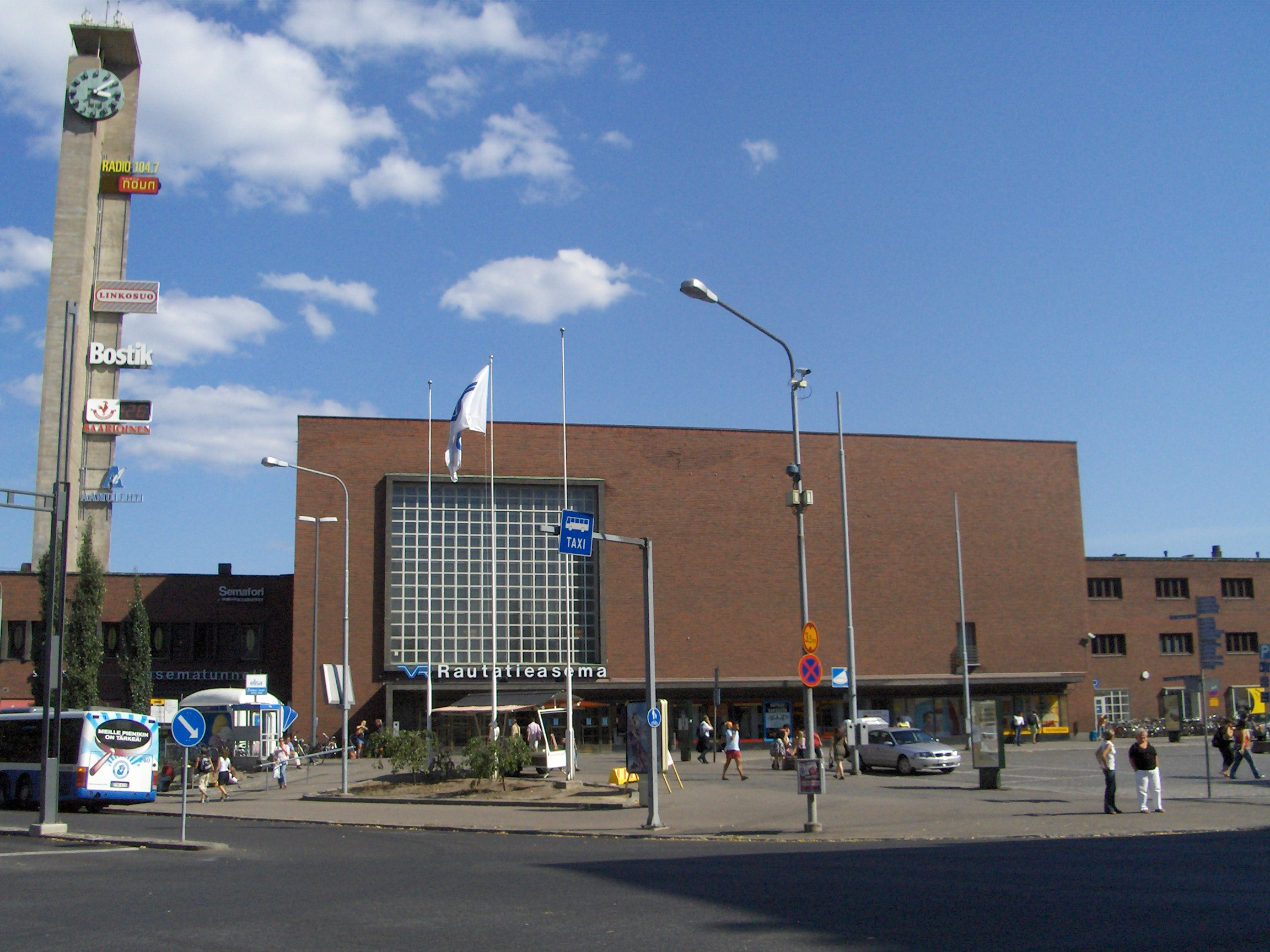 Tampere railway station